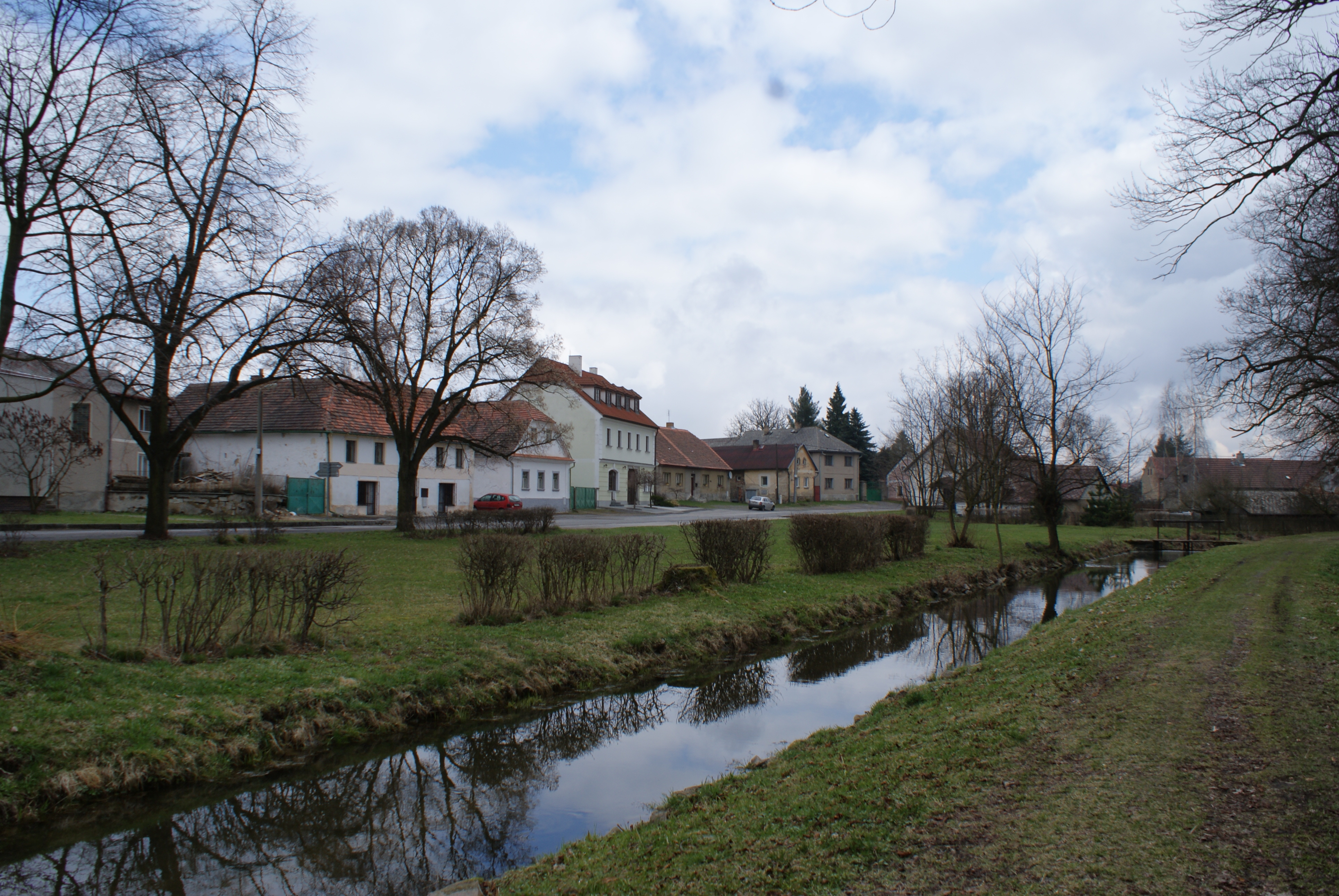 Tochovice, a village in Příbram district, Czech Republic, the village common in front of the Castle.